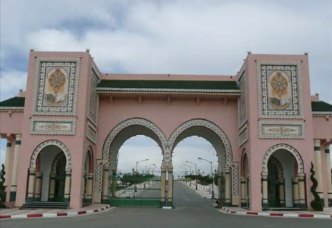 University of Tlemcen - Algeria